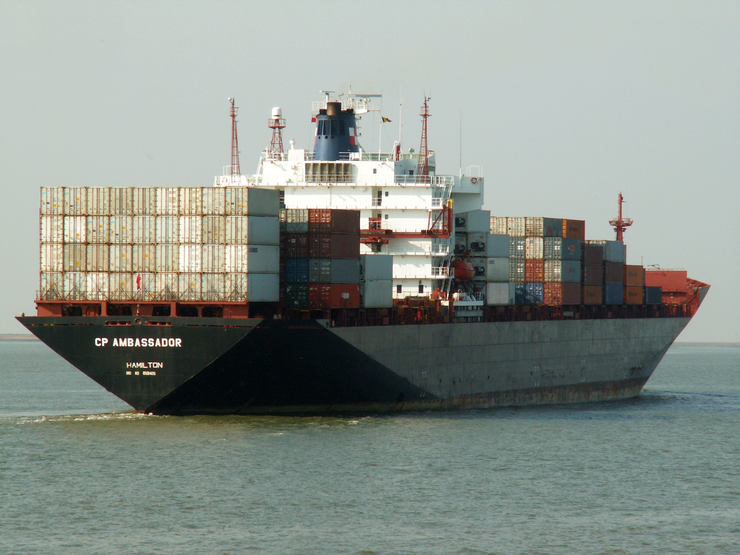 CP Ambassador aft, IMO 8501426 at Port of Antwerp, Belgium 12-Oct-2005.